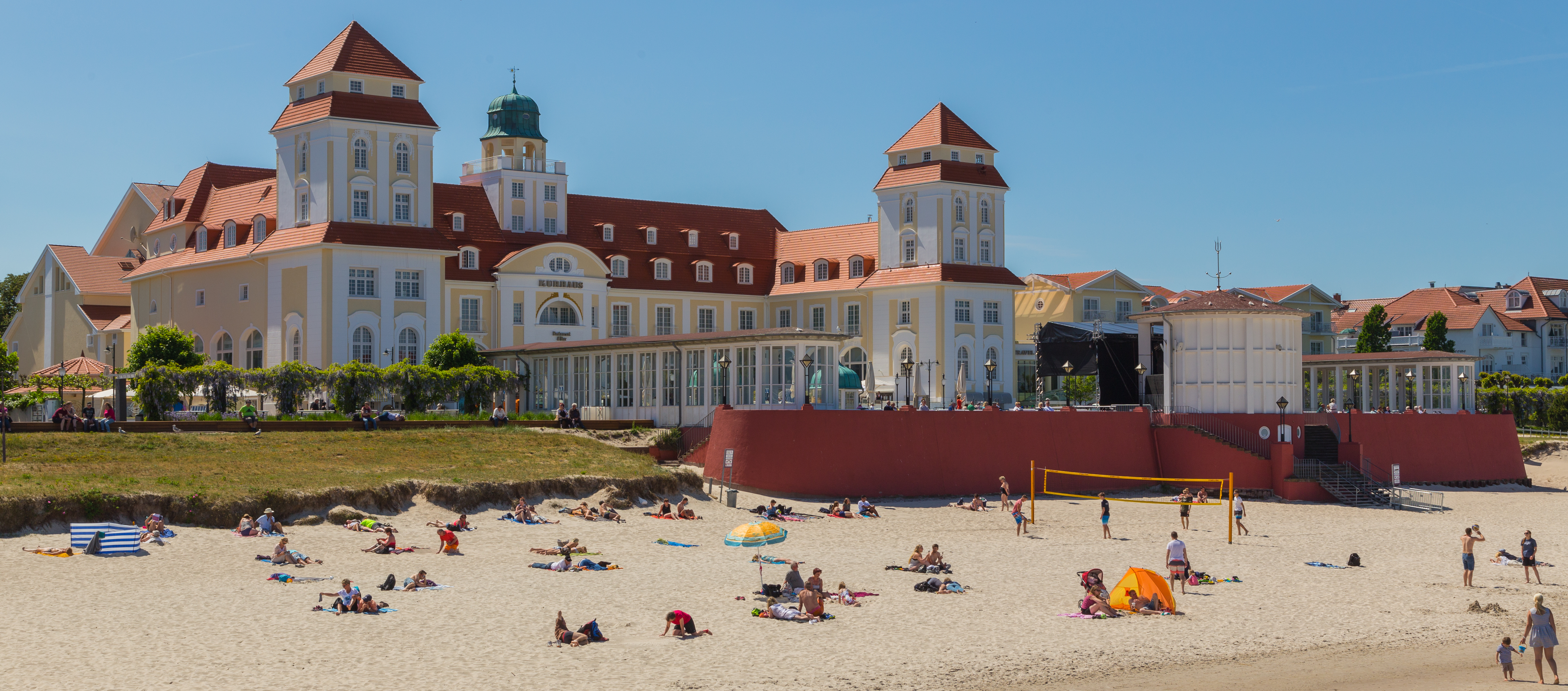 The hotel Kurhaus Binz in Binz, Landkreis Vorpommern-Rügen, Mecklenburg-Vorpommern, Germany. The building is a listed cultural heritage monument.